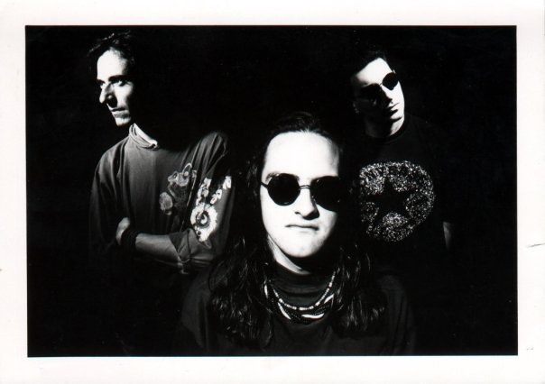 Press shot of the British band Scrash